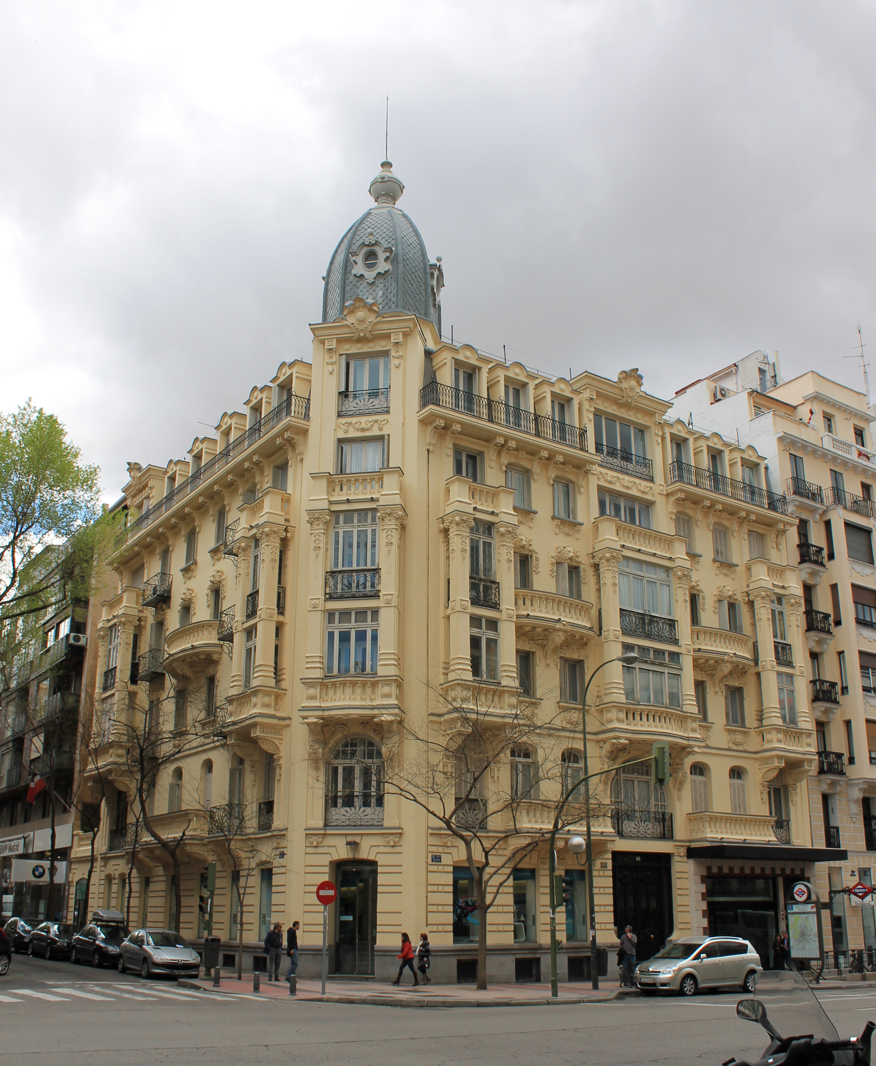 Building at 32 Calle de Goya (street) in Madrid (Spain). It was designed in 1907 by José Espelius Anduaga and built from 1907 to 1909 as a housing for Ms. María de los Ángeles Espeliús.